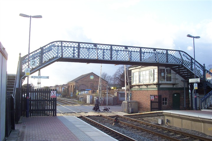 Narborough railway station taken by kev747